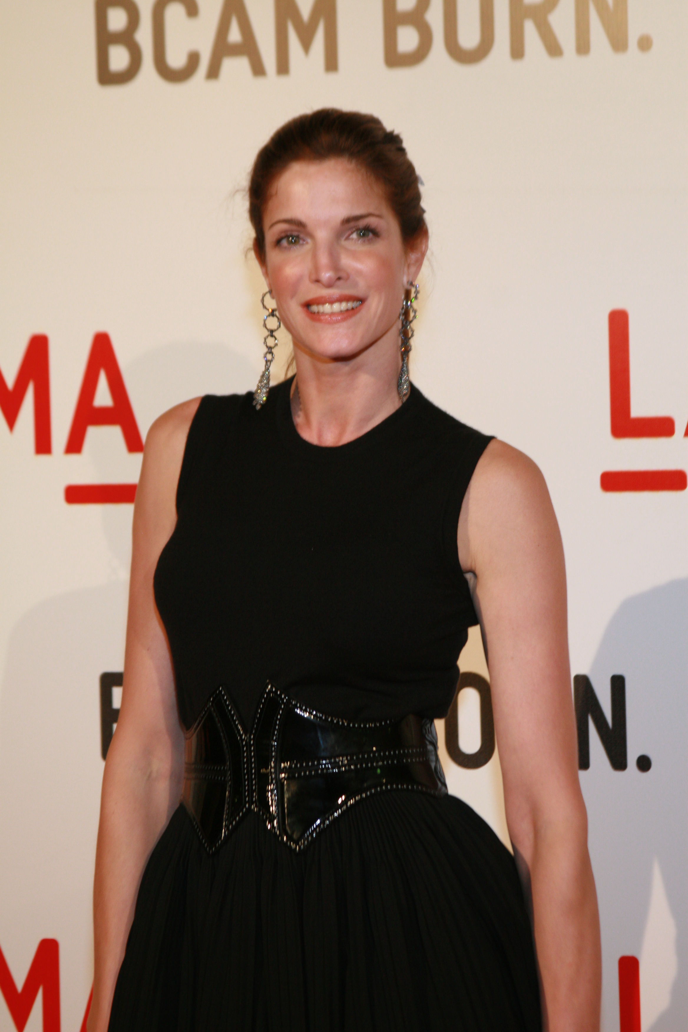 Stephanie Seymour arrives at LACMA’s Gala Opening of the Broad Contemporary Art Museum on February 9, 2008 in Los Angeles, CA.